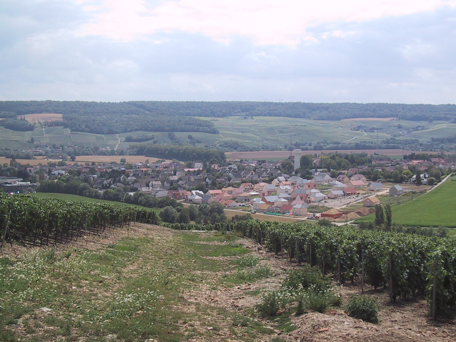 View of Damery, Marne, France.